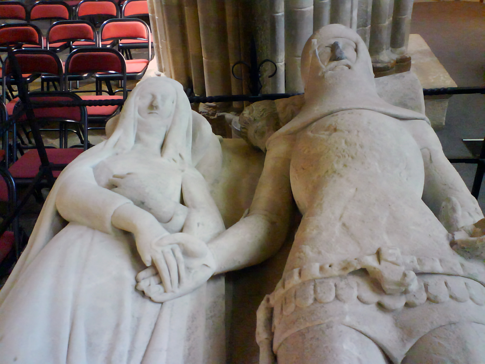 The 14th-century memorial effigy in Chichester Cathedral which inspired Larkin's poem "An Arundel Tomb" (Note: The effigies in Chichester Cathedral are attributed to Richard FitzAlan and Eleanor of Lancaster. FitzAlan and Eleanor were actually buried in Lewes Priory. Although Larkin called the effigies a "tomb", they are actually a "memorial". See Talk, Distinction needs to be made: Not a "tomb" but a "memorial".) The plaque in the cathedral reads as follows: An Arundel Tomb The figures represent Richard Fitzalan III, 13th Earl of Arundel (ca 1307-1376) and his second wife Eleanor, who by his will of 1375 were to be buried together "without pomp" in the chapter house of Lewes Priory. The armour and dress suggest a date near 1375; the knight's attitude is typical of that time, but the lady's crossed legs, giving the effect of a turn towards her husband, are rare. The joined hands have been thought due to "restoration" by Edward Richardson (1812-69), but recent research has shown the feature to be original. If so, the monument must be one of the earliest showing the concession to affection where the husband was a knight rather than a civilian.